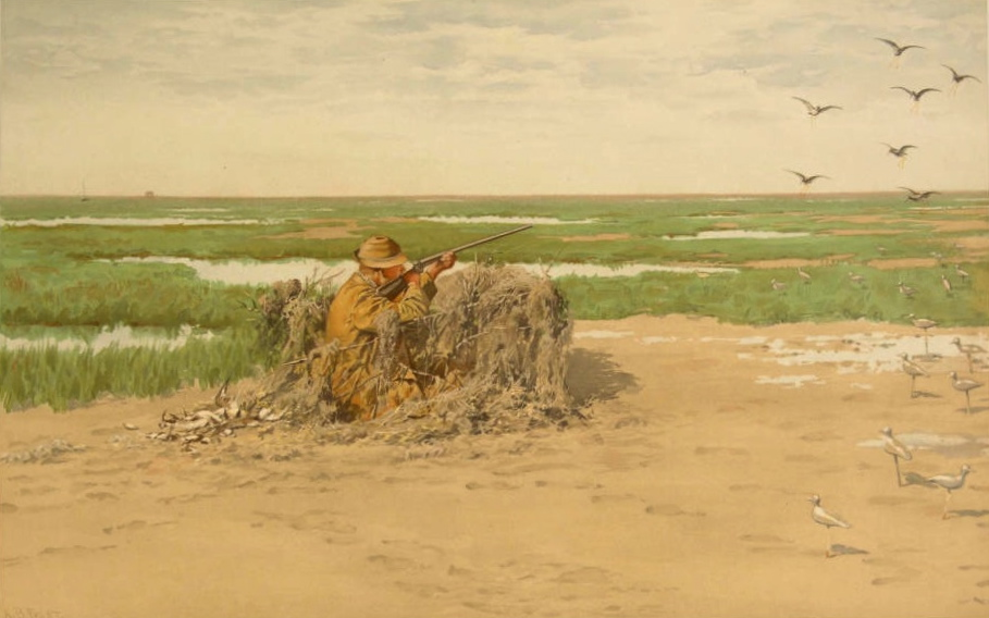 Print, color chromolithograph, "Bay Snipe", from Shooting Pictures, by Scribner & Sons, 1895. Some of Frost's rarest prints are twelve chromolithographs from the portfolio entitled Shooting Pictures, by Scribner & Sons in 1895. This portfolio was originally issued by subscription, and was limited to 2500 copies. Various hunting scenes are depicted. The picture is slightly cropped.